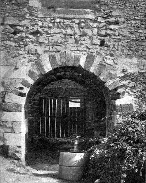 Torbogen des Watergate von Portchester Castle, Aufnahme von 1915.